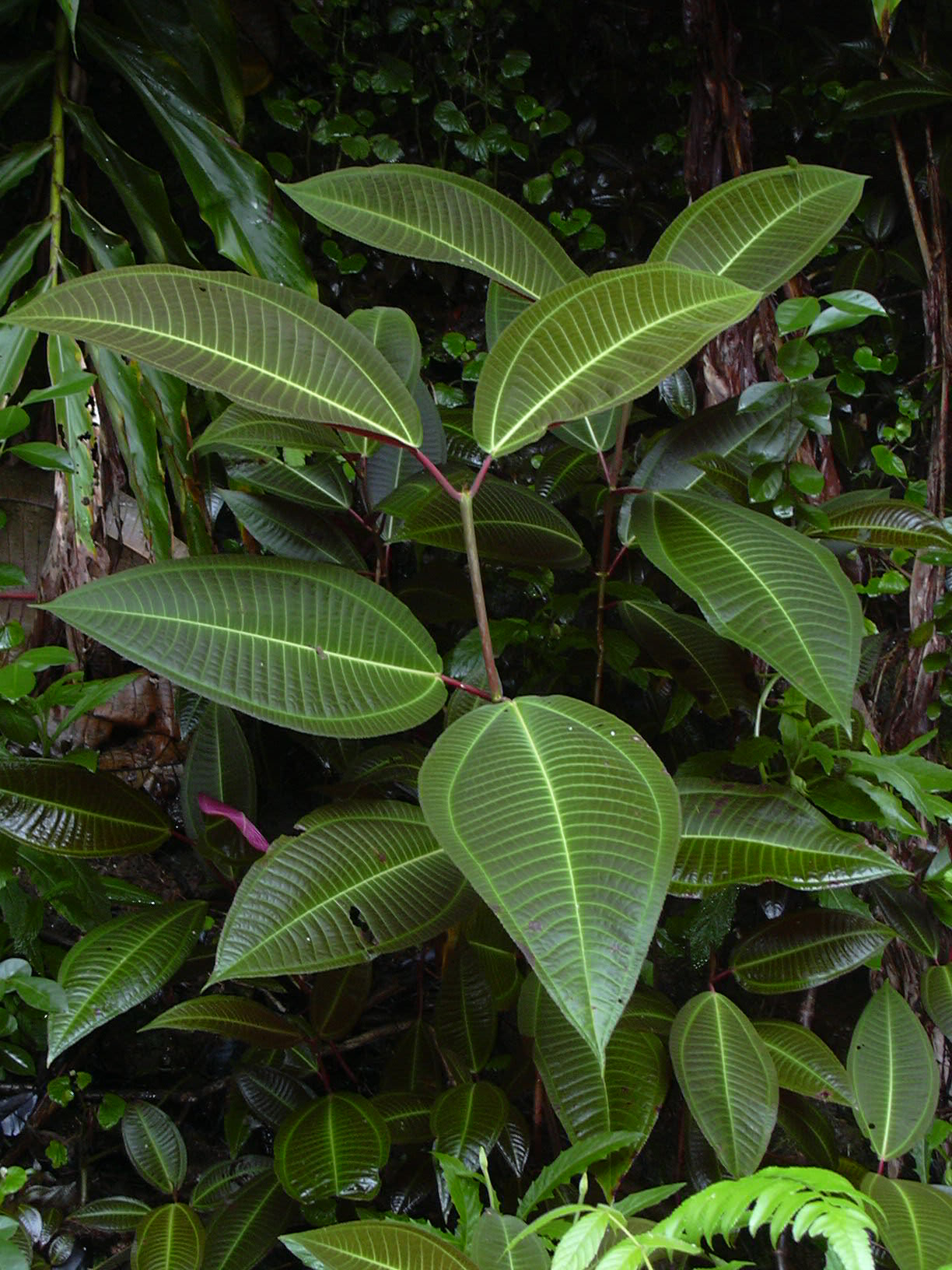 Miconia calvescens (habit). Location: Hawaii, Hilo